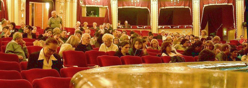 Bucharest, Romanian Opera, interior